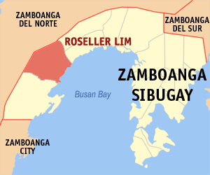 Map of the Zamboanga Sibugay showing the location of Roseller Lim